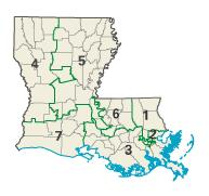 Image adapted from US fed gov't source Category:Congressional districts of Louisiana